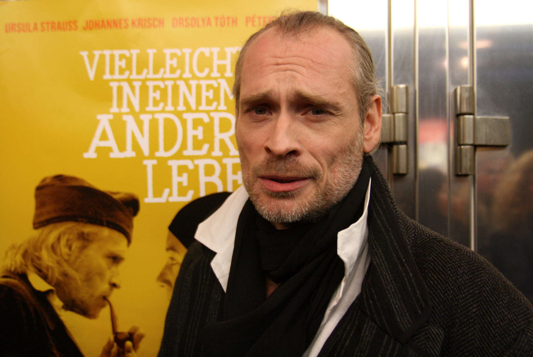 Johannes Krisch at the premiere of the movie Vielleicht in einem anderen Leben at the Gartenbaukino in Vienna.